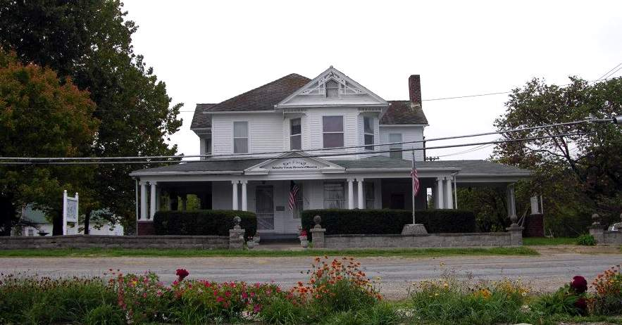 Lancaster, Missouri home of William Preston Hall, noted circus owner and animal broker of the late 19th and early 20th century. The home now serves as the Schuyler County Historical Society museum.